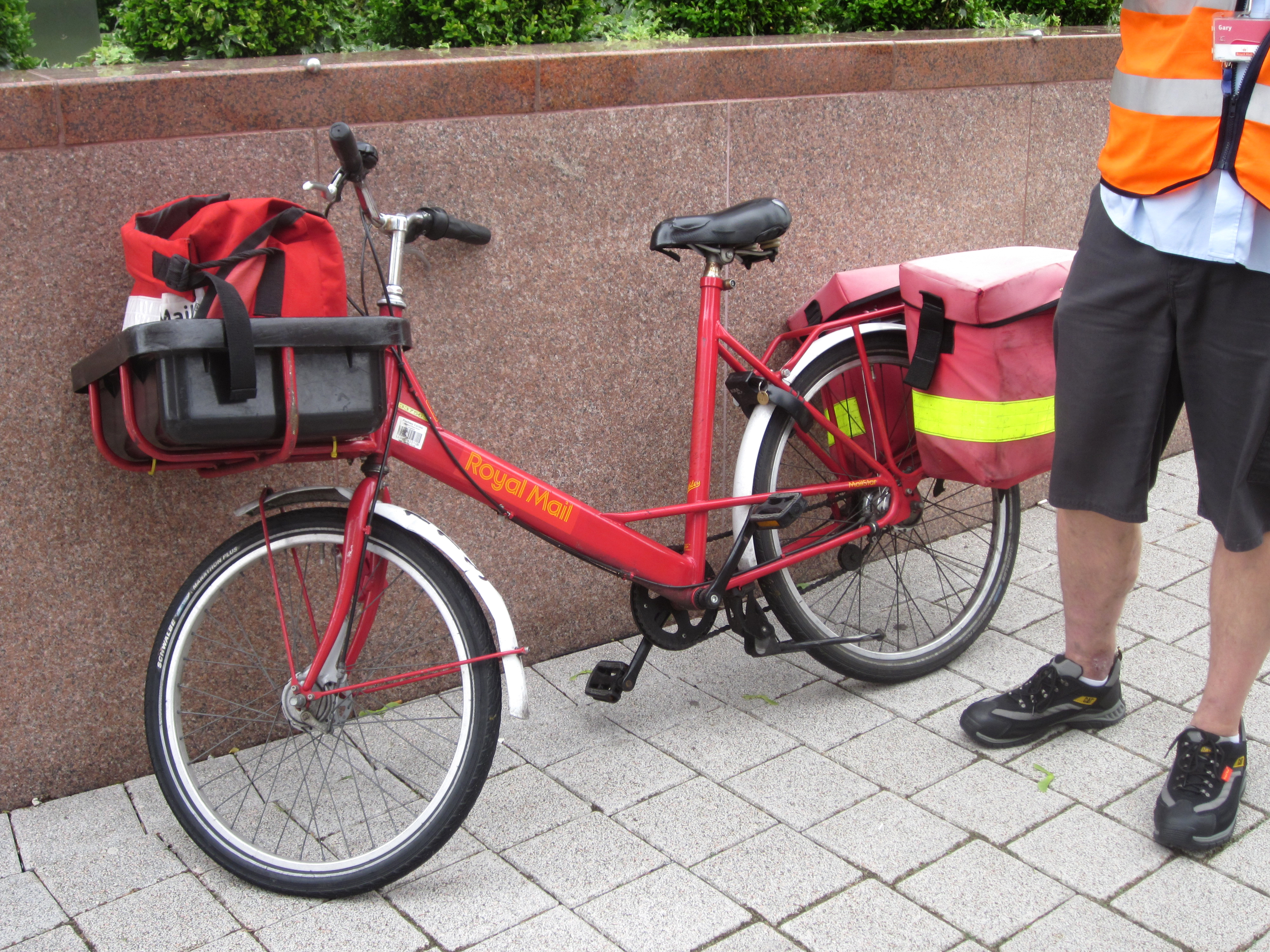 Postal bike Pashley Mailstar of the Royal Mail in Portsmouth.